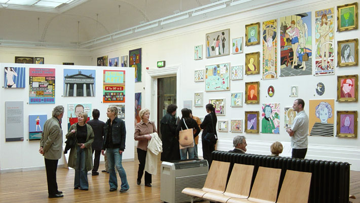 The Stuckists Punk Victorian show at the Walker Art Gallery for the 2004 Liverpool Biennial.Left: wall of paintings on Tate and Turner Prize.Right: paintings by Charles Williams and Paul Harvey.